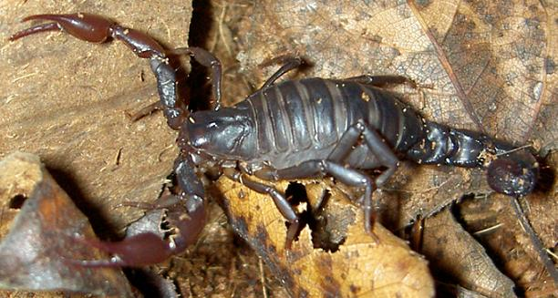 Caraboctonus keyserlingii Chile